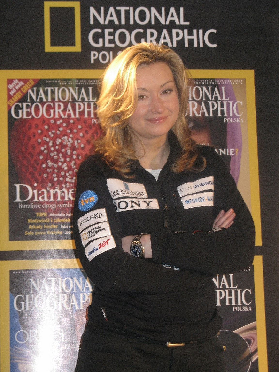 Martyna Wojciechowska during promo meeting in Warsaw.